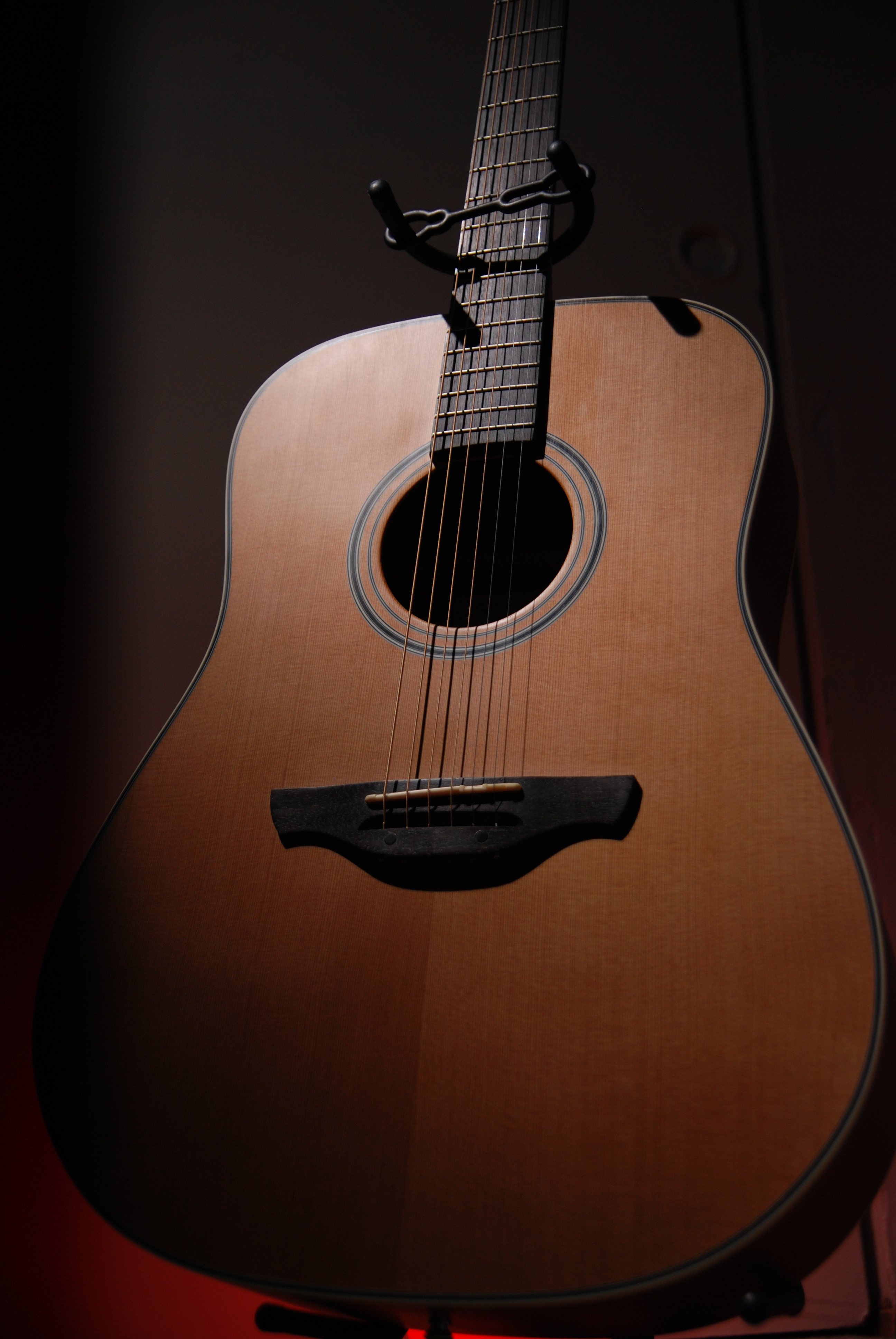 Takamine Naturals Series strobist: one gelled sb25 behind the guitar and another snooted at camera left.